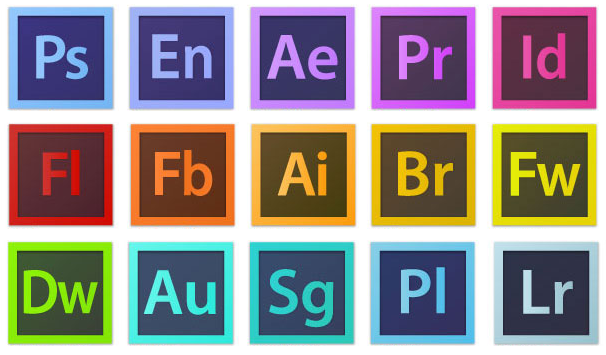 Adobe Creative Suite 5 icons